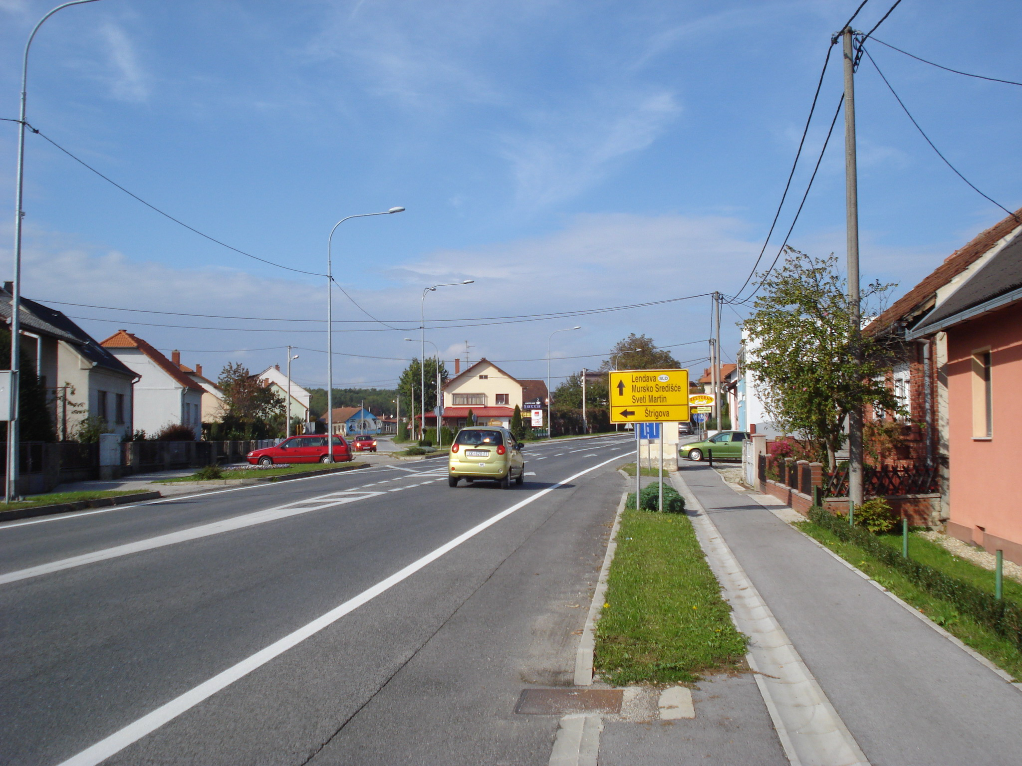 Šenkovec, Medjimurje County, Croatia - centreHrvatski: Šenkovec, Međimurska županija, Hrvatska - središte